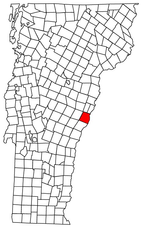 Description: Map of Vermont towns with Thetford highlighted Source: Map created by Jared C. Benedict on 26 March 2004. Copyright: © Jared C. Benedict.